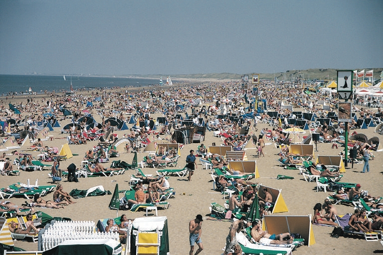 In countries in stage 4 of the demographic transition, even places normally associated with children, such as beaches, are dominated by the presence of adults. Only two children can be seen among hundreds of adults in this view of Scheveningen Beach, Netherlands.